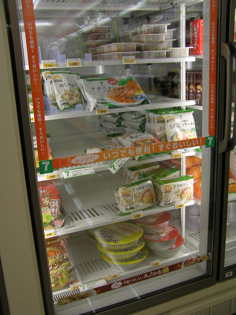 Around 7:00am, Monday 14 March, 2011. Tokyo, Japan. I seldom see this shelf this empty. -=-=-=-=-=-=-=-=-=- My archive